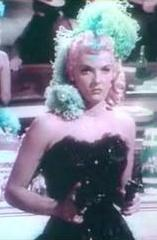 Cropped screenshot of Jane Russell from the film Montana Belle